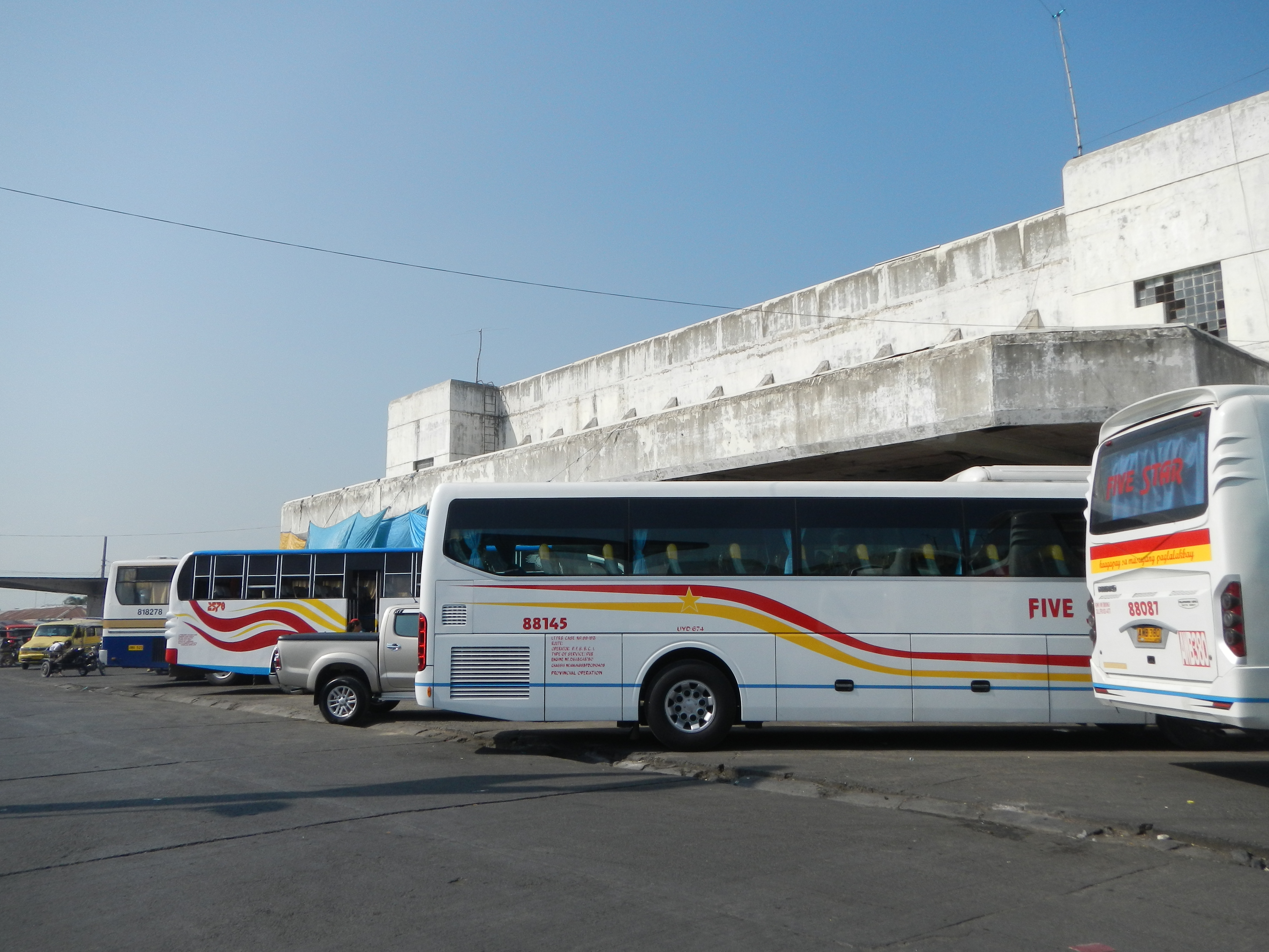 Crossing, Junction, Intersection in Pan-Philippine Highway, Daang Maharlika gateway to the Cabanatuan City Central Transport Terminal, Central Terminal StreetCabanatuan City, Nueva Ecija.